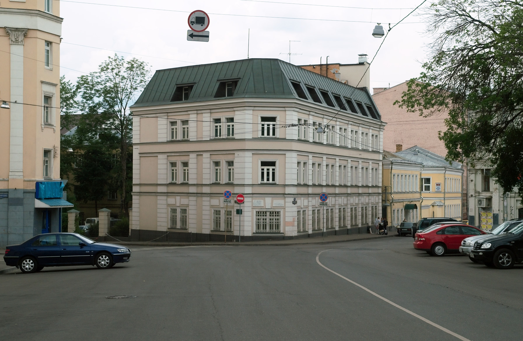 Embassy of Australia in Moscow (center) in the former Khitrov Market. A small group of artists at the right edge of the building are painting St. Nicholas church.